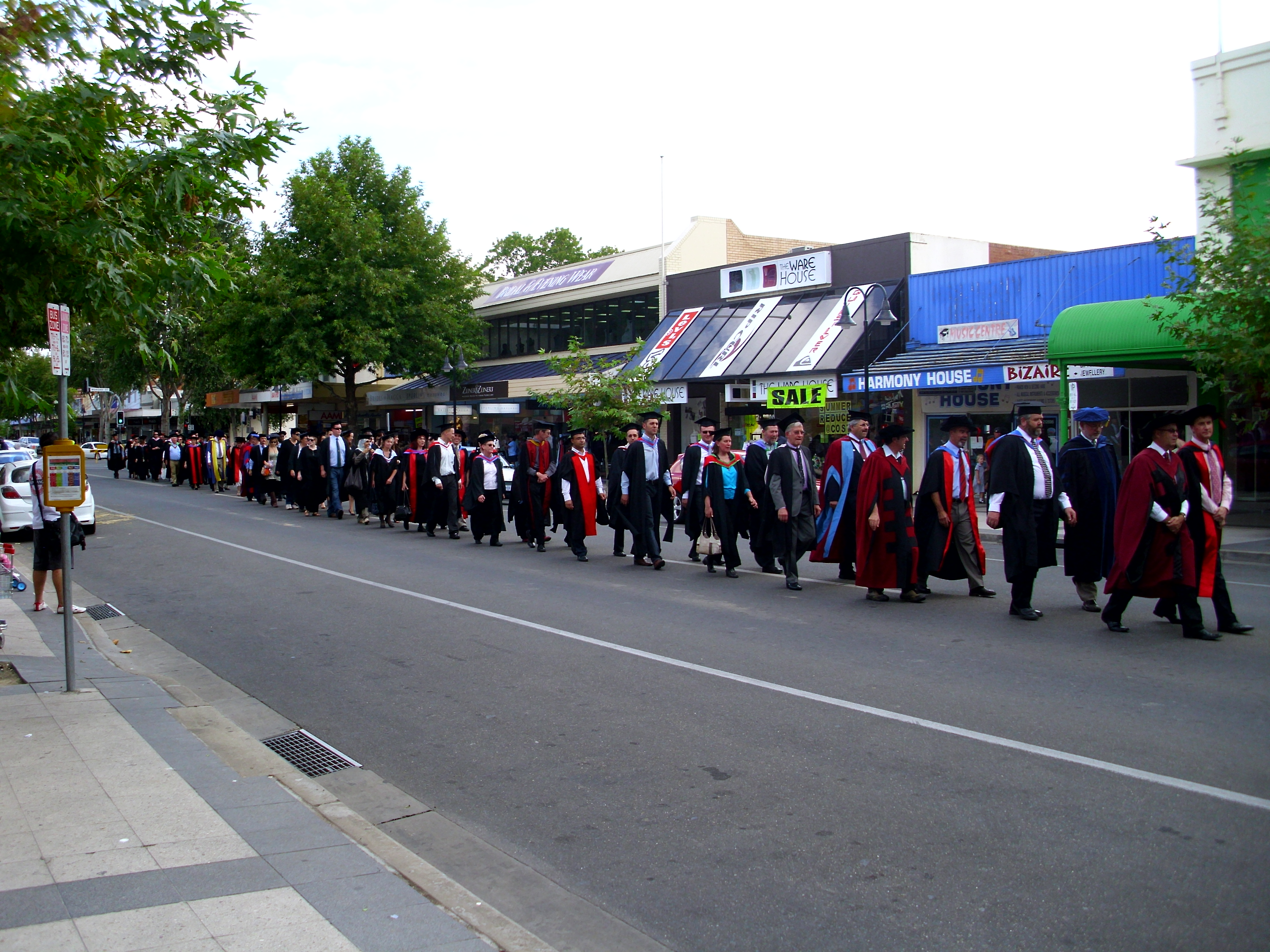 Charles Sturt University Town and Gown academic procession down Baylis Street.